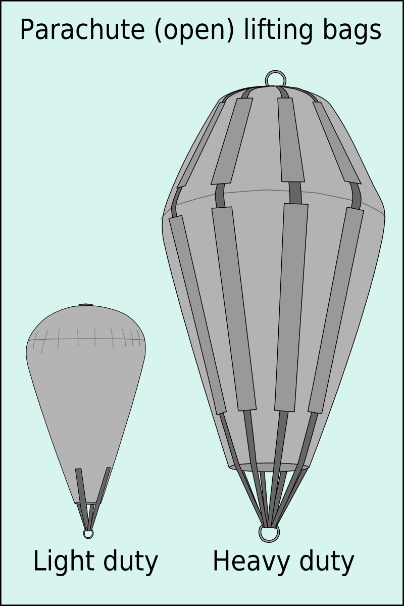 Light and heavy duty parachute style lift bag diagram